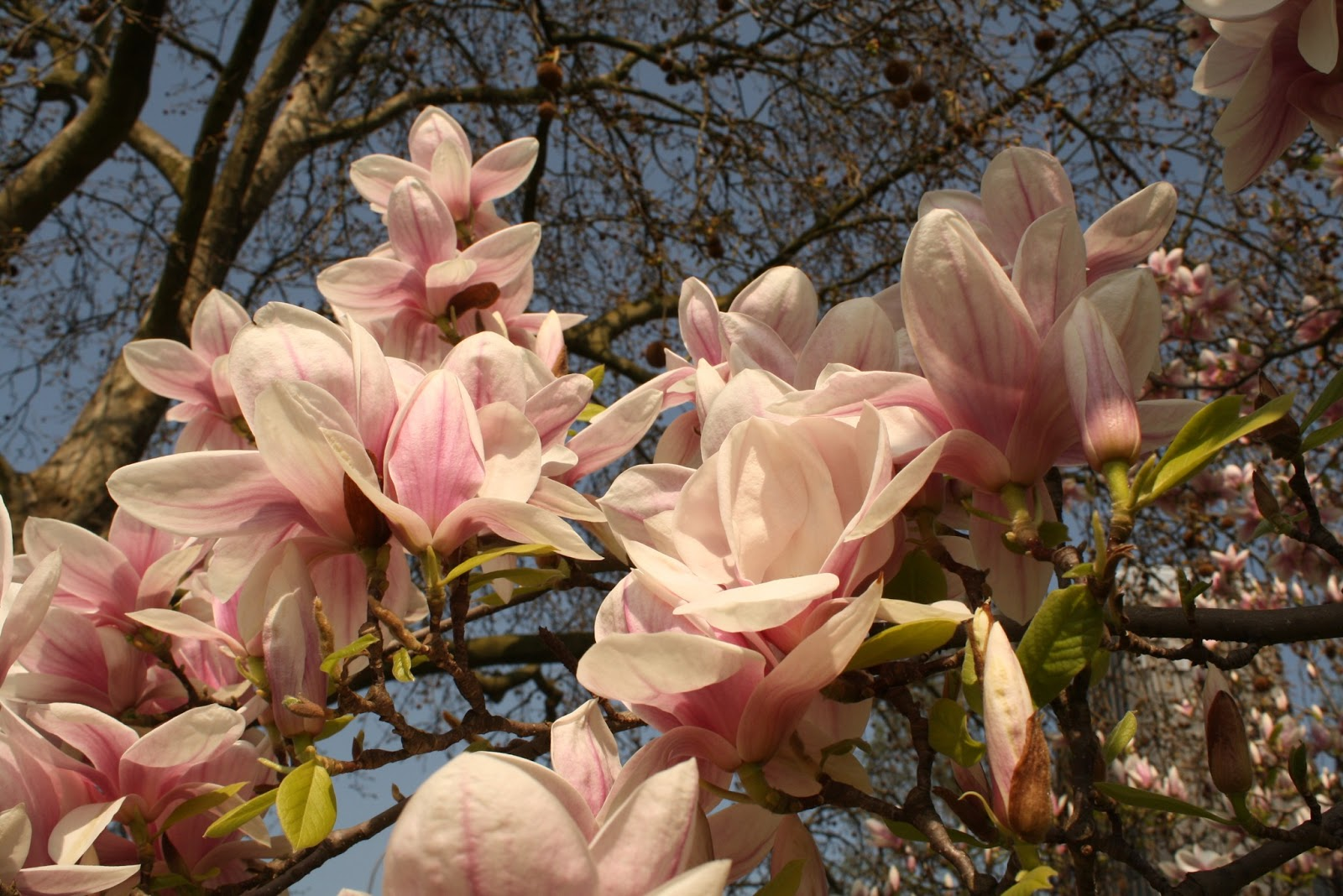 Magnolia flowers (Wiesbaden, Germany)